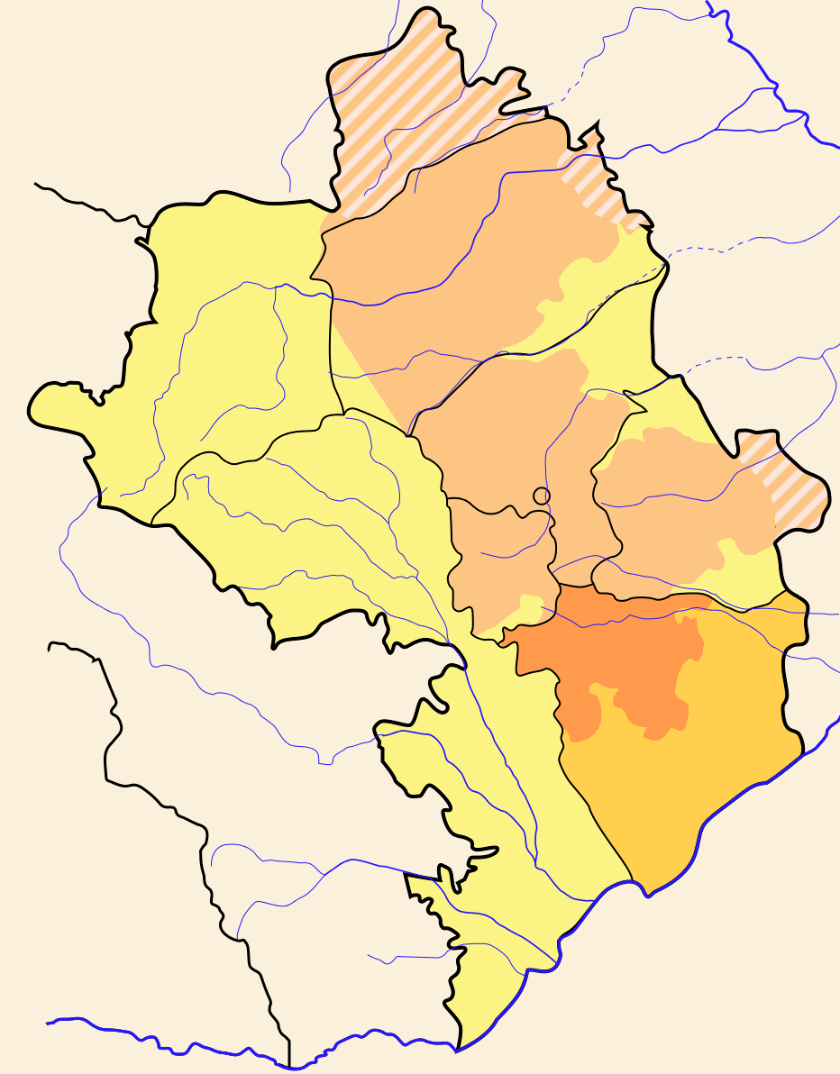 Rayon of Hadrut in NKR